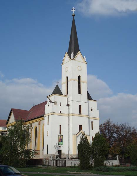 Greek Catholic Church, Búza square, Miskolc, Hungary